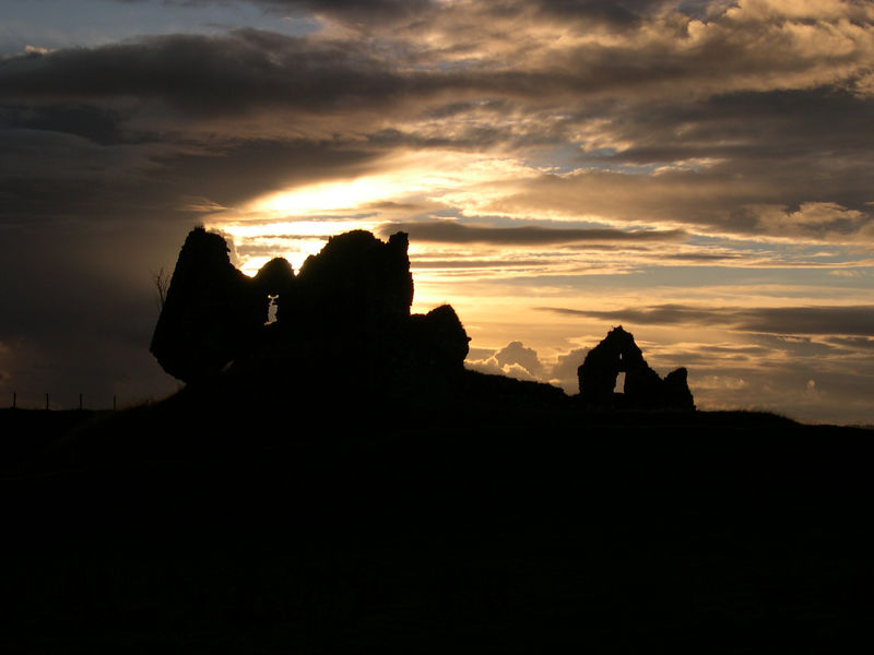 Clonmacnoise Castle, taken by Shermozle 13:37, 24 March 2006 (UTC)